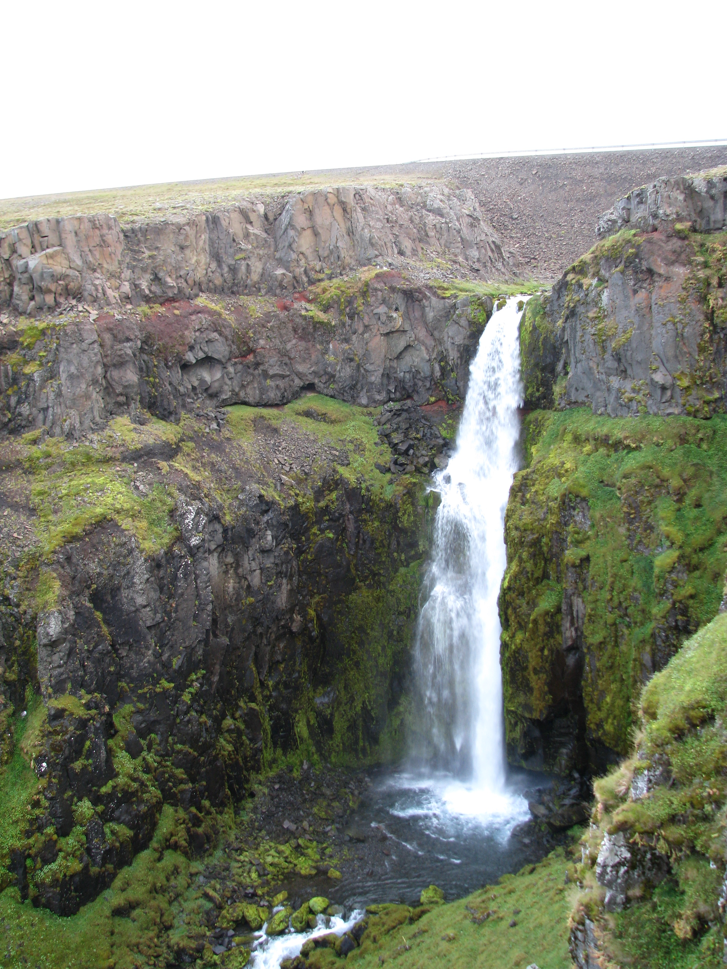 Gljúfursárfoss, waterfall, Iceland